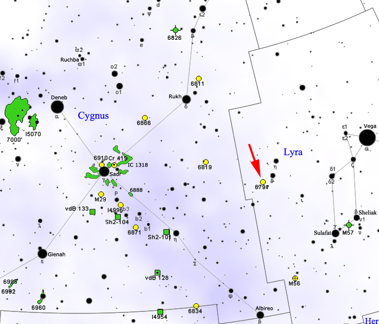 Map of NGC 6791